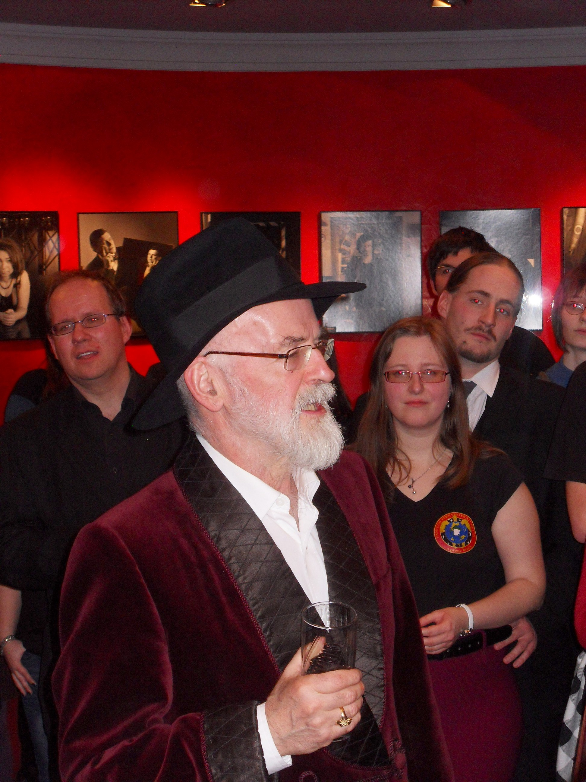 Terry Pratchett with fans in Divadlo v Dlouhé, Prague, Czech Republic